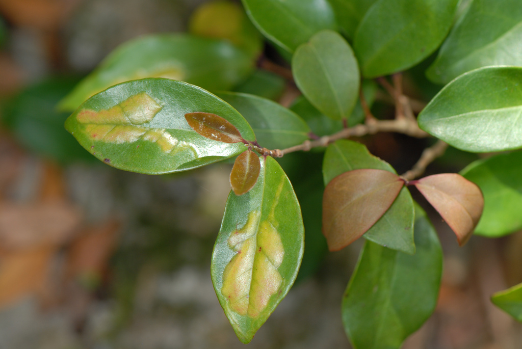 BDA: 32° 20' N x 64°42' W Walsingham Nature Reserve Hamilton Parish, Bermuda 31 July 2009 Sam Fraser-Smith